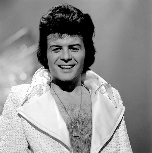 Gary Glitter in AVRO's TopPop (Dutch television show) in 1974